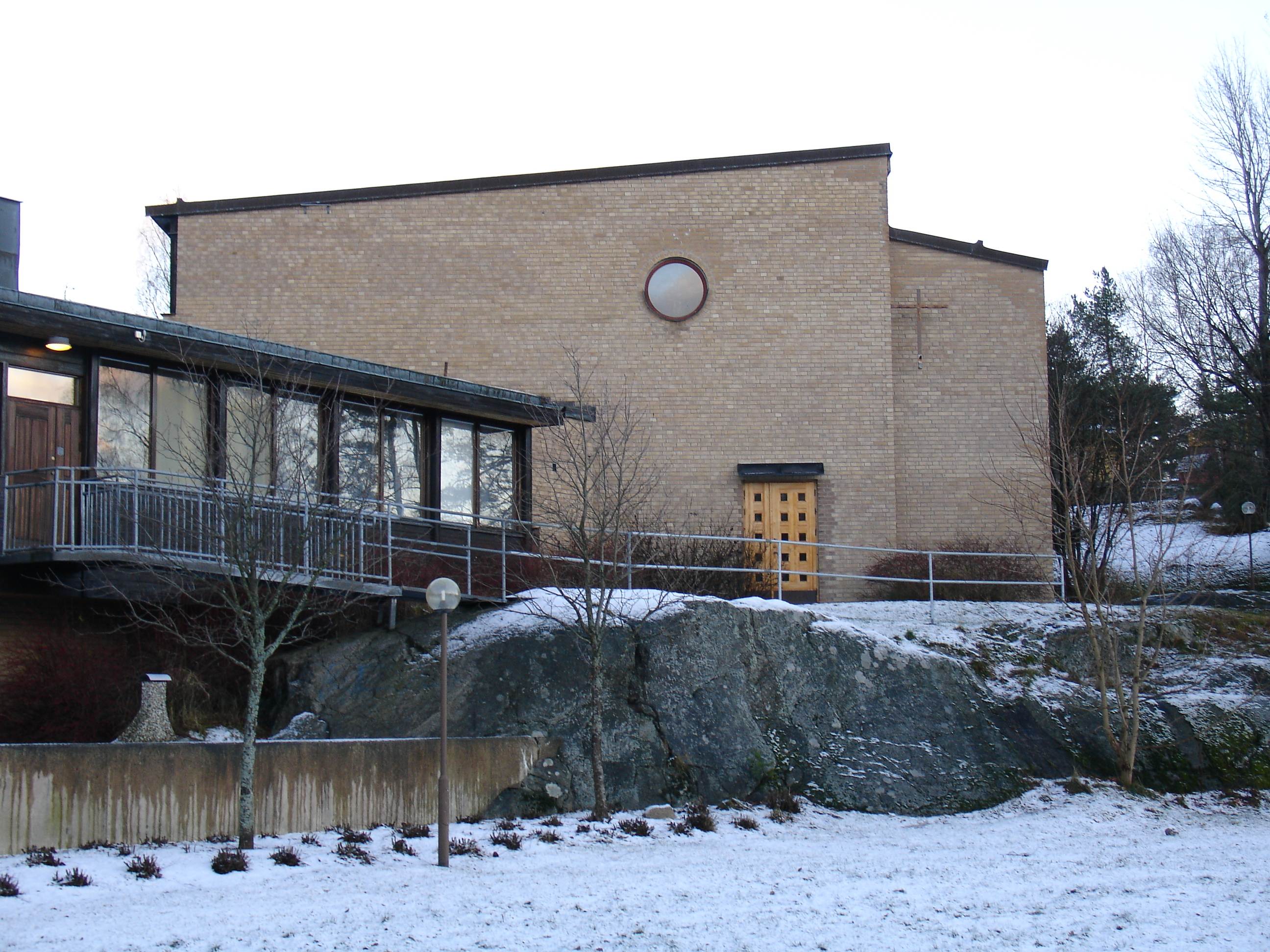 Church of Bollmoradalen, Sweden